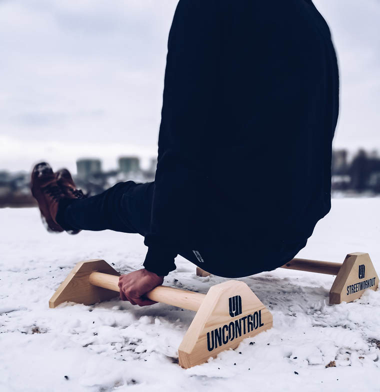 L-Sit on Parallets